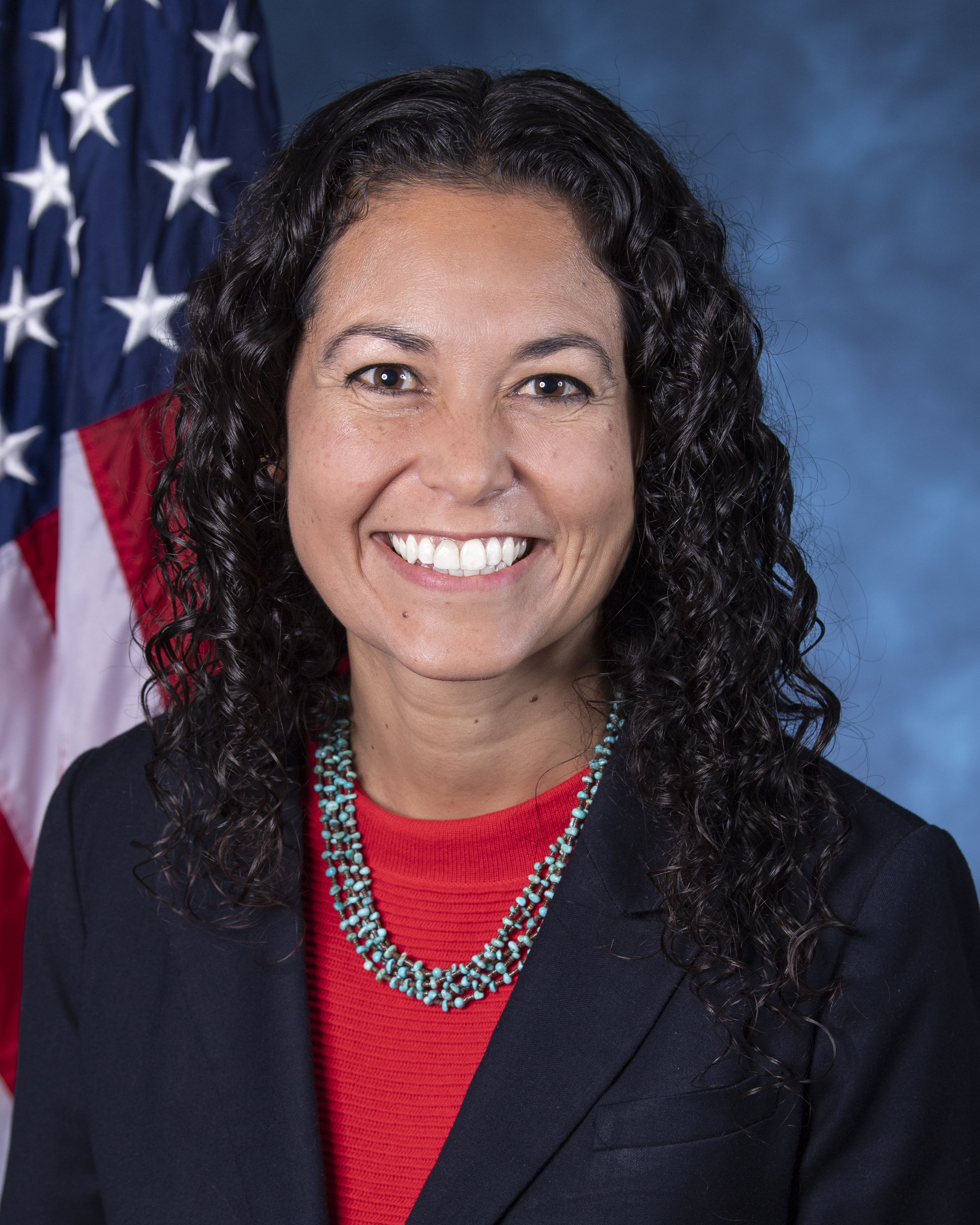 The official headshot of Rep. Xochitl Torres Small (D-NM)